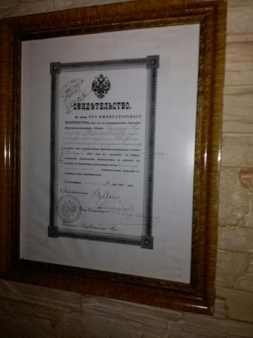 certificate of nobility Terpilowski family